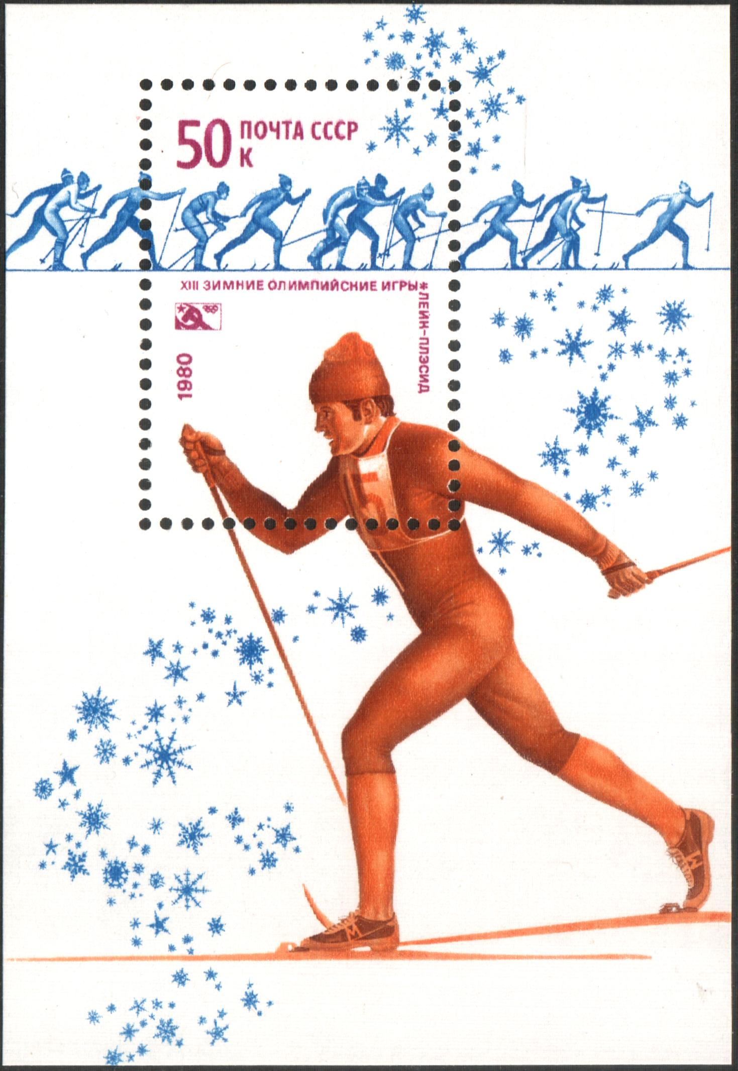 USSR sheet of 1